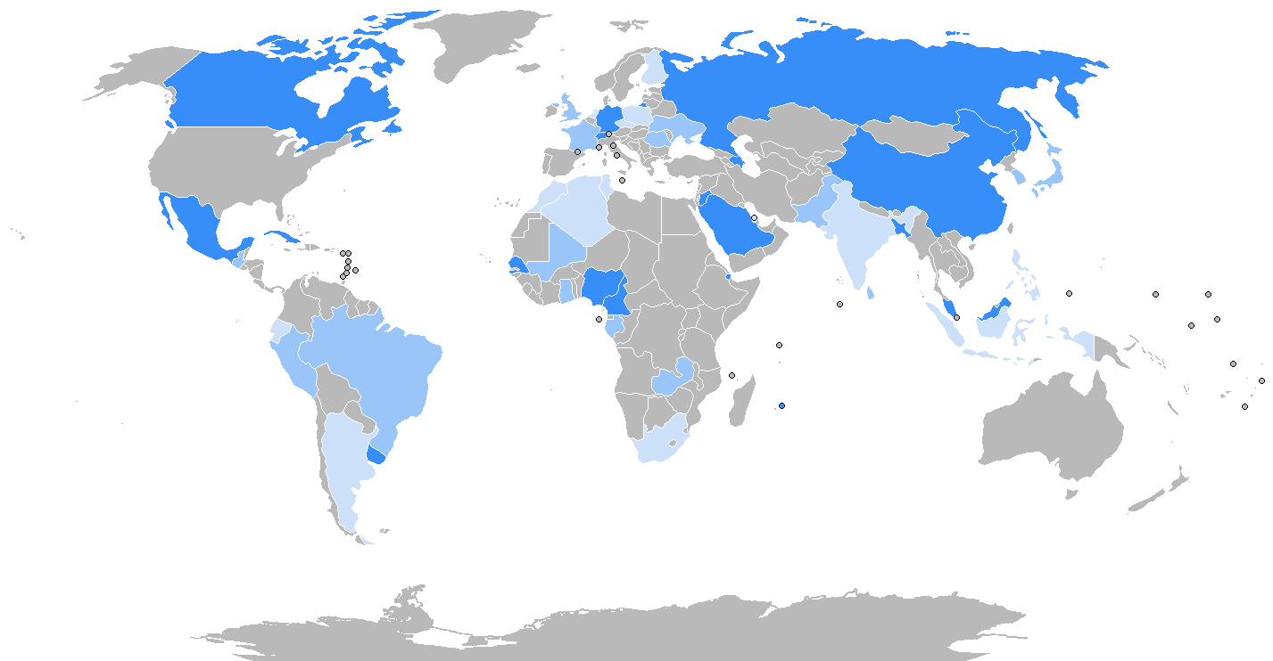 members of the HRC